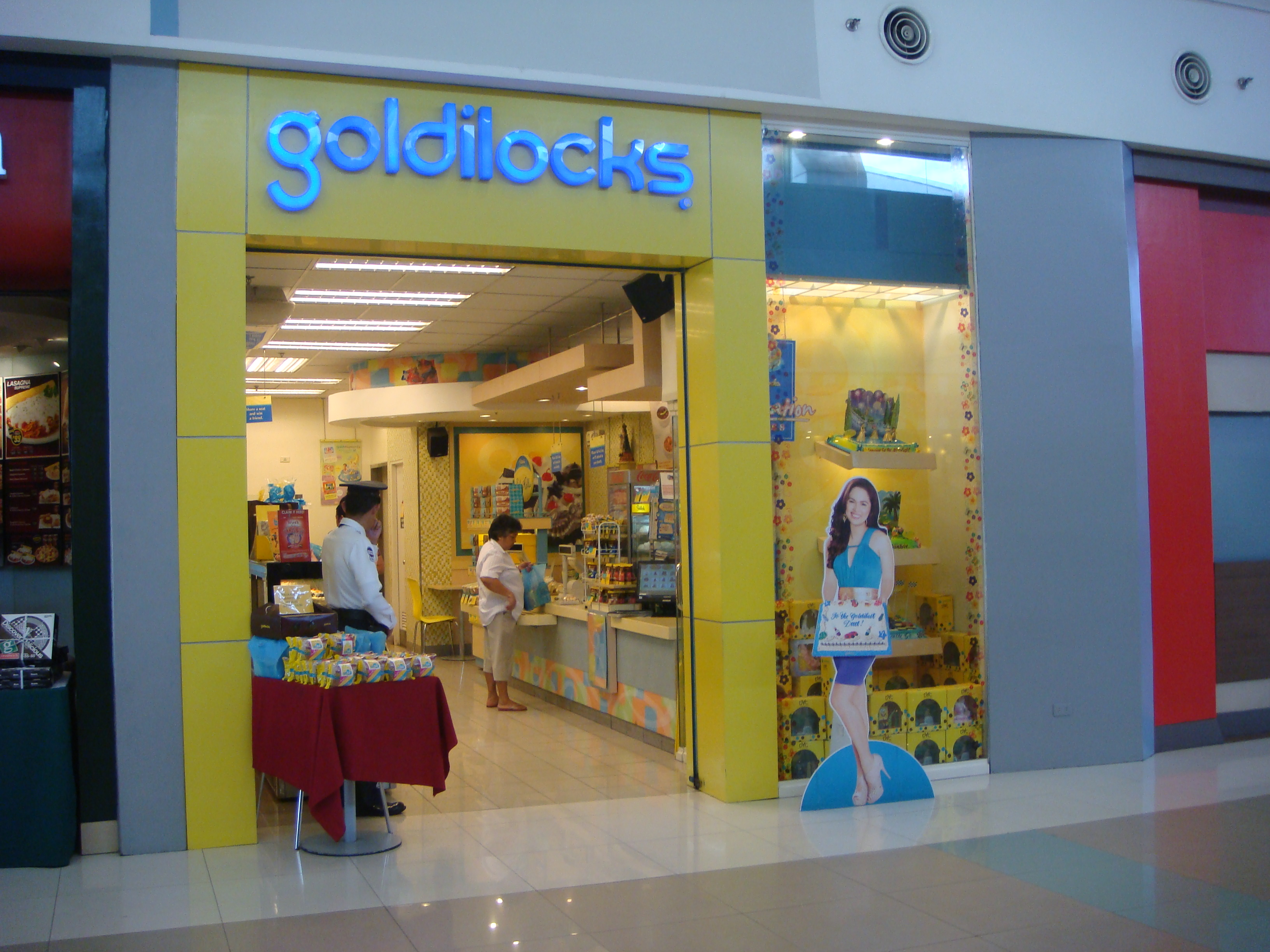 Goldilocks at SM City Baliuag